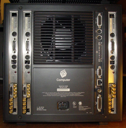 Jean-Bernard EMOND